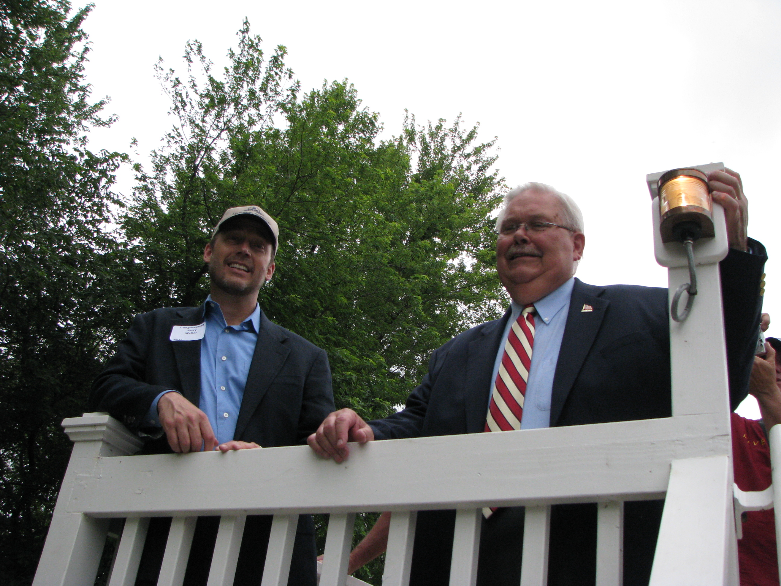 U.S. Rep Jerry Weller (L) and LaSalle Mayor Art Washkowiak (R) talk on the Volunteer, a 1848 replica canal boat on the Illinois and Michigan Canal at LaSalle IL.